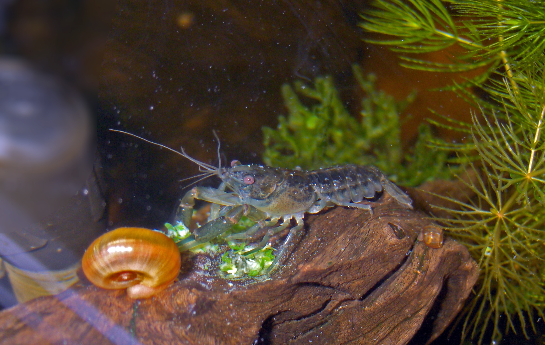 Adult male of Mexican dwarf crayfish, Cambarellus patzcuarensis. The body is about 3.5 centimetres long (approximately 1.38 inches) excluding claws. The snail to the left is a great ramshorn, Planorbarius corneus.